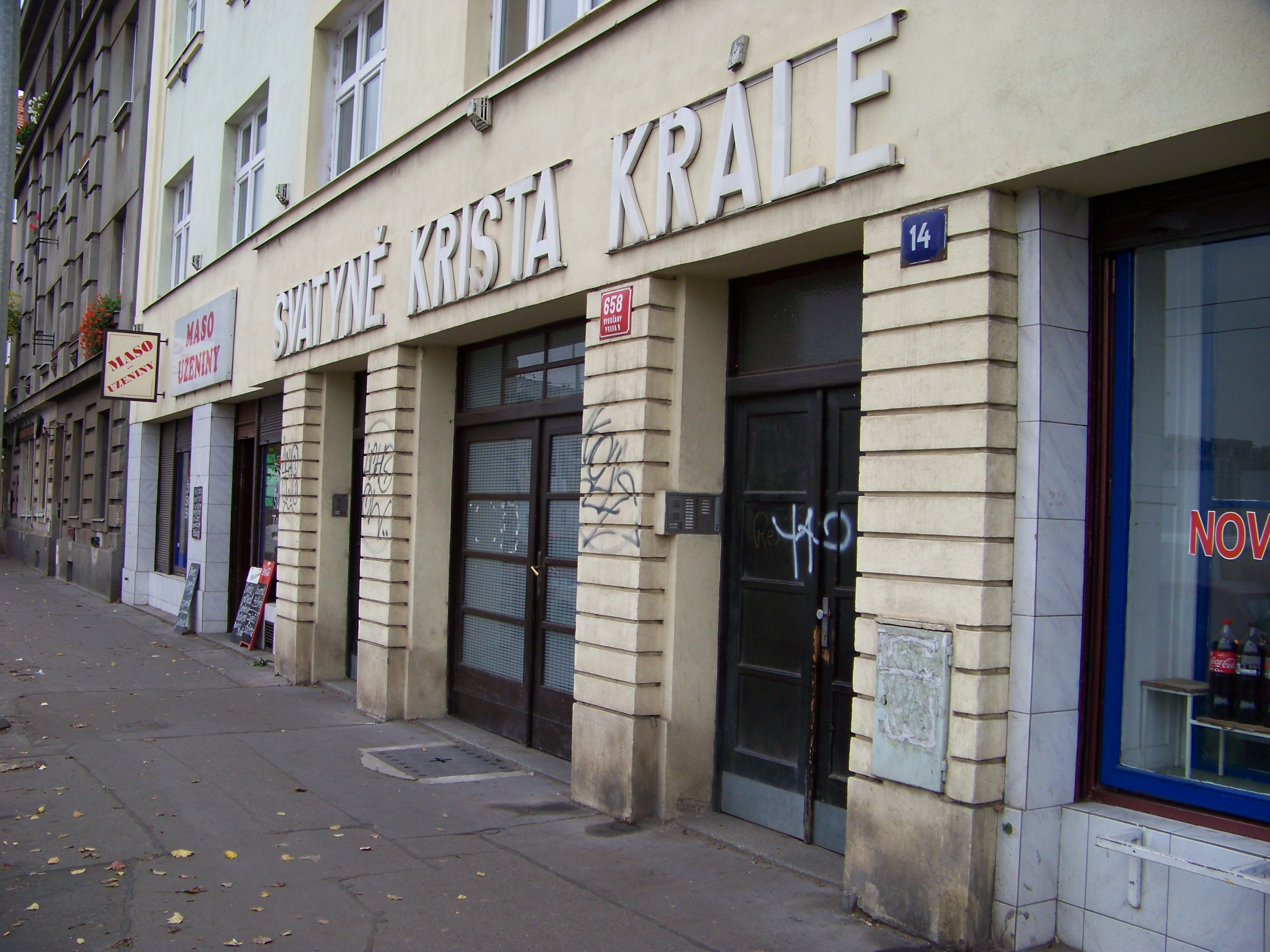 Prague-Vysočany, the Czech Republic. Kolbenova 658/14, entry of the Sanctuary of the Christ the King.